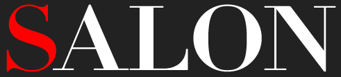 The logo of Salon since at least 2012.